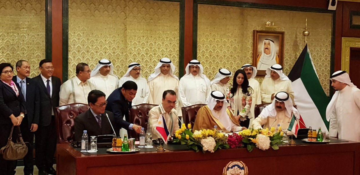 Foreign Affairs Secretary Alan Peter S. Cayetano and Kuwaiti Deputy Prime Minister and Foreign Minister Sheikh Sabah Khalid Al Hamad Al Sabah sign the Agreement on the Employment of Domestic Workers on behalf of their respective countries in ceremonies at the Ministry of Foreign Affairs in Kuwait. Witnessing the signing is Labor and Employment Secretary Silvestre Bello III and other officials of the Philippine Government led by Special Envoy Abdullah Mama-o and Presidential Spokesperson Harry Roque and their Kuwaiti counterparts. DFA Photo